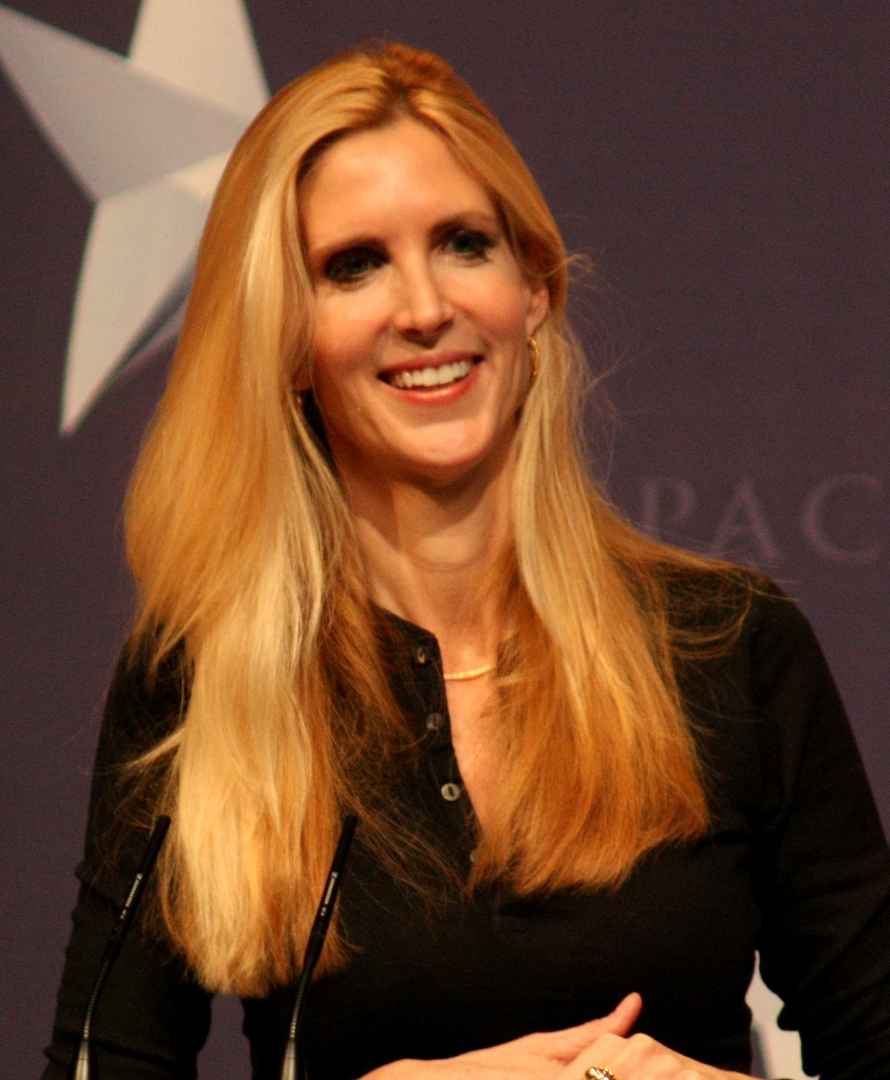 Commentator and author Ann Coulter at CPAC in Washington, D.C..